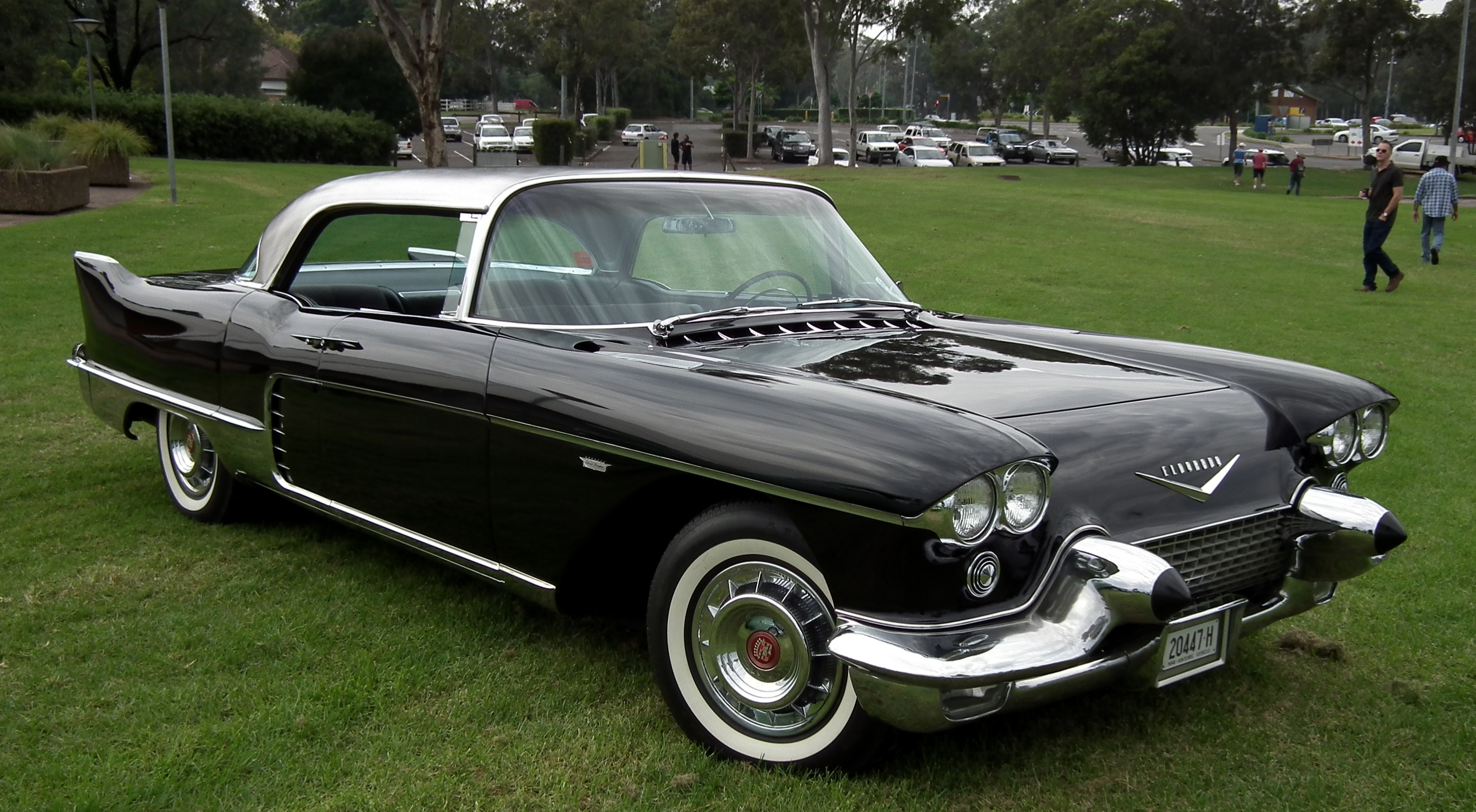 1957 Cadillac Eldorado Brougham hardtop. Taken at the General Motors Display Day, held in the grounds of Penrith Panthers Club, Penrith NSW.